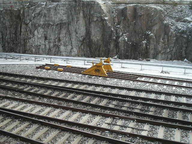 Track terminator